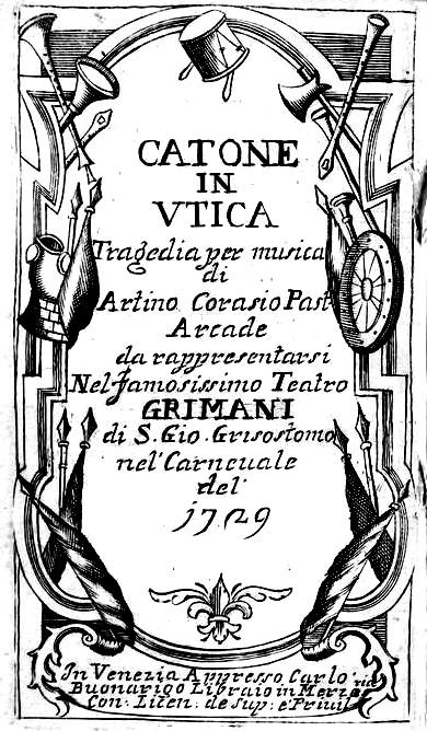 Leonardo Leo - Catone in Utica - italian titlepage of the libretto - Venice 1729